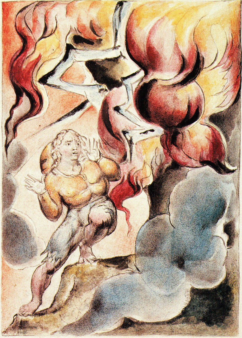 William Blake - John Bunyan Plate 8 Christian Fears the Fire from the Mountain